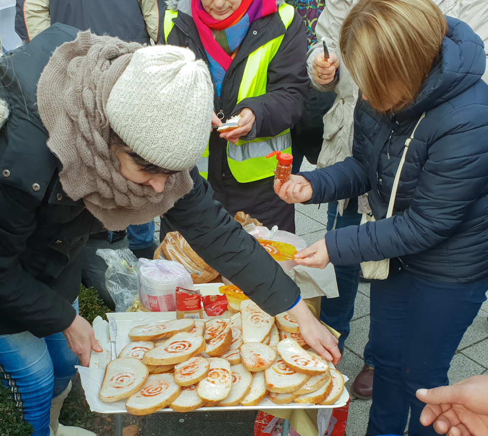 Distribution of bread with O1G sign in Budapest.